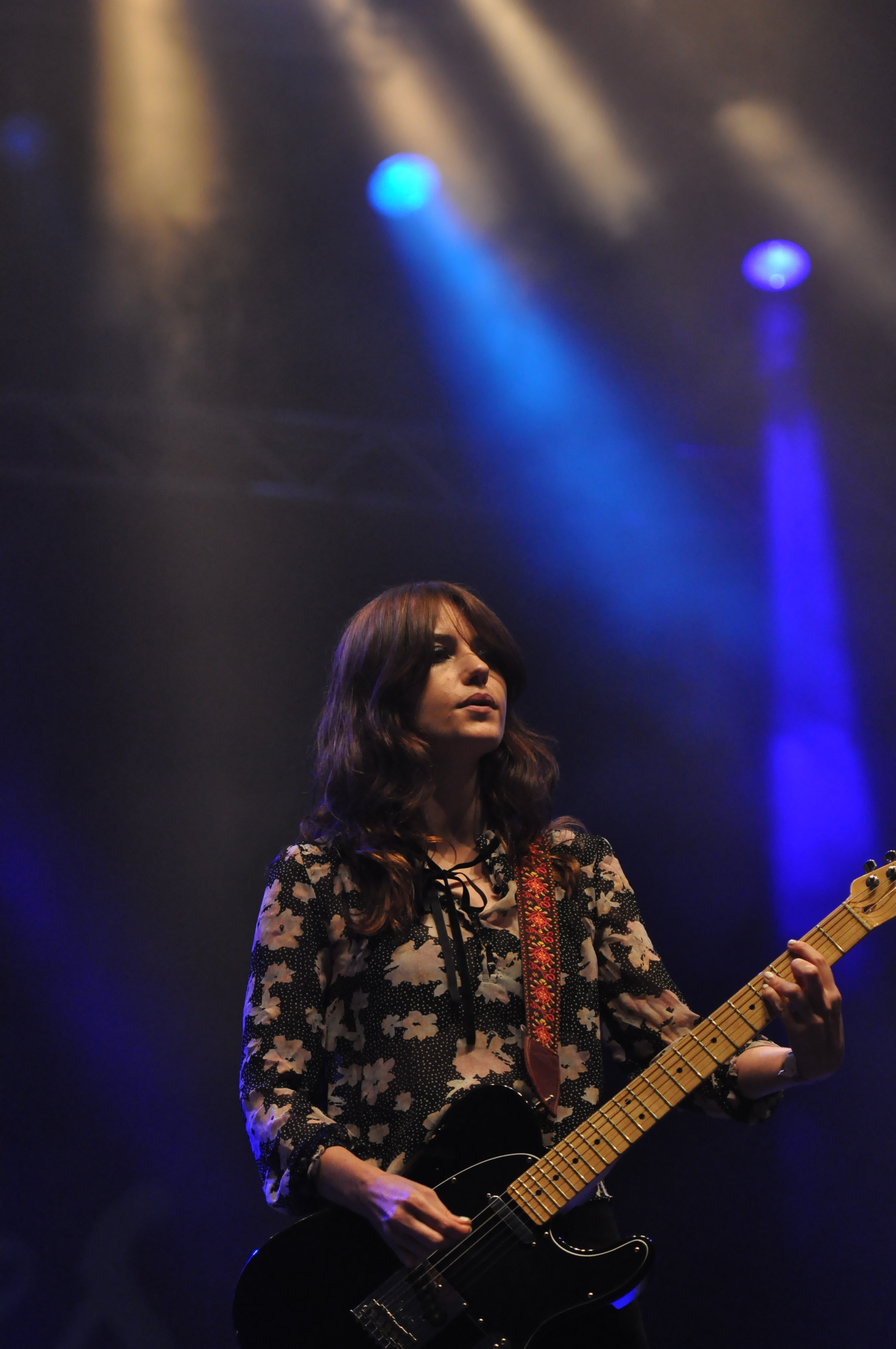 Brighton rock band Blood Red Shoes at Rocken am Brocken 2014